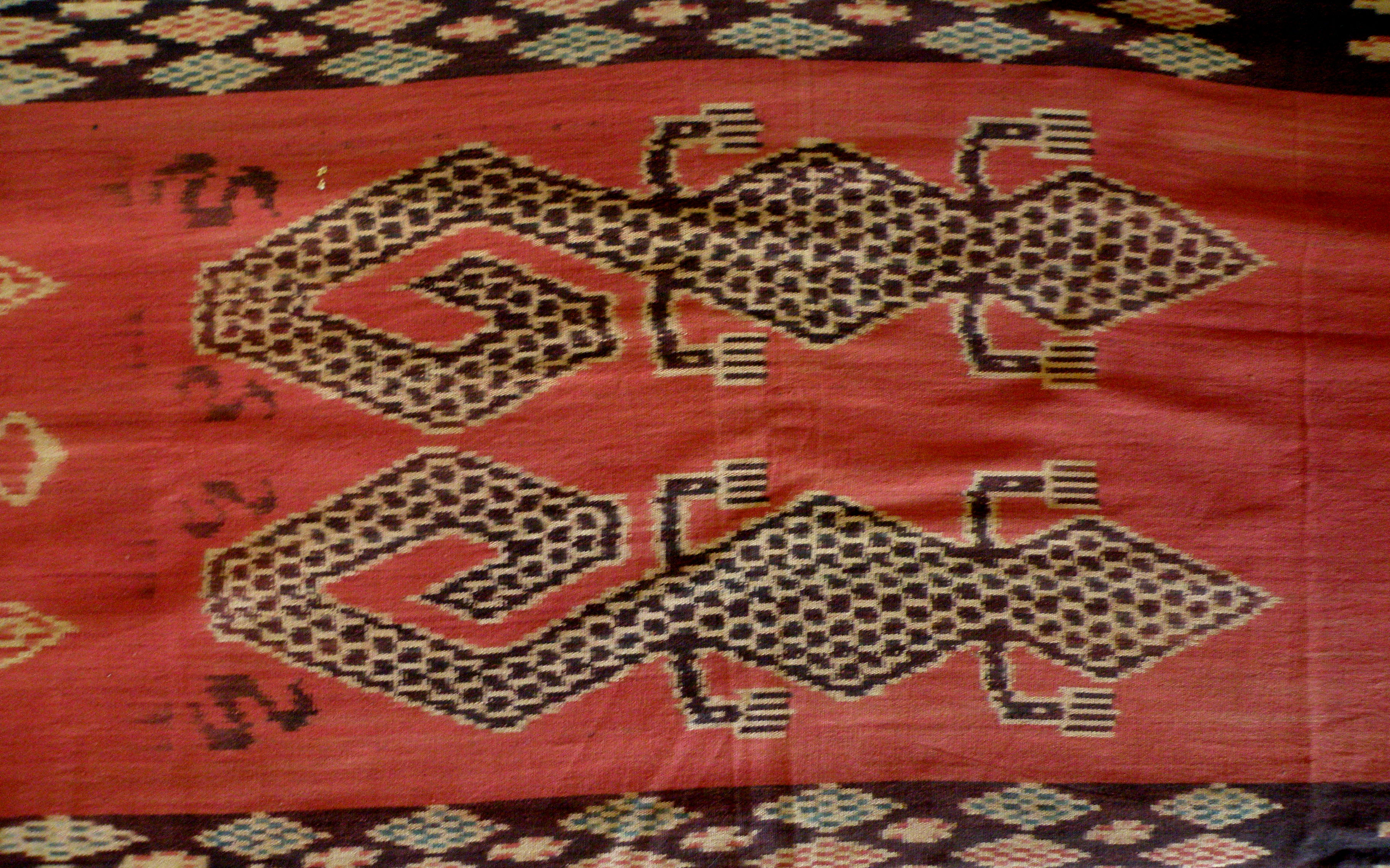 detail from a Sumba hinggi. Ikat weave, dyed in natural colors showing a geko.